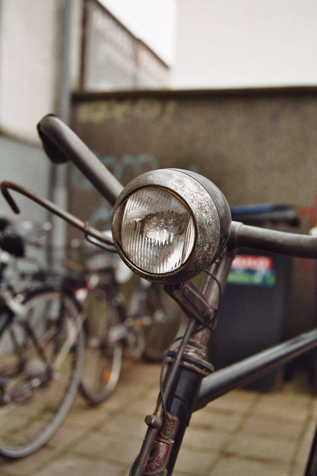 A 1950's german Bosch bicycle headlight